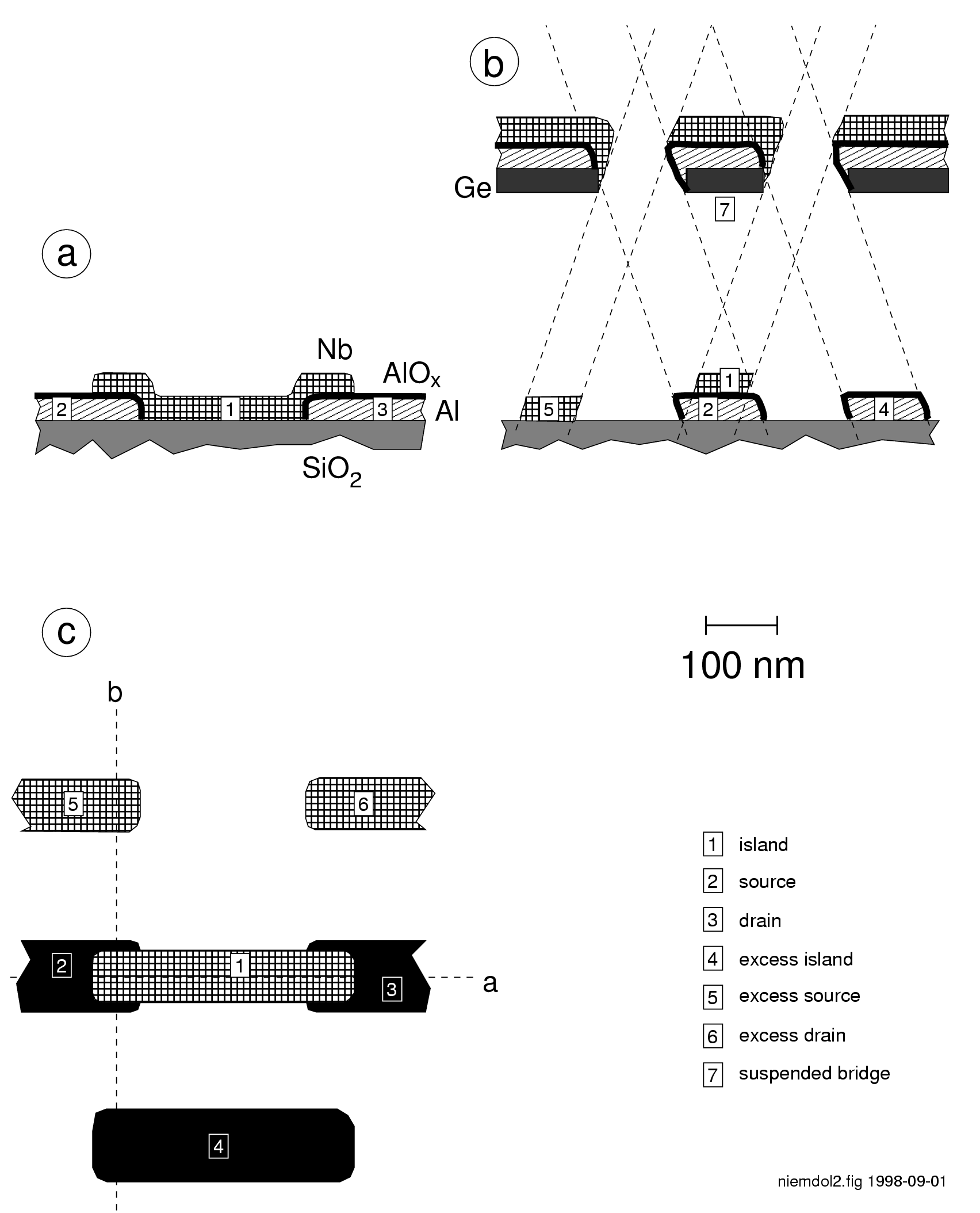 Niemeyer-Dolan (angular evaporation) technique for the fabrication of single electron transistors. a: Side view, cut along the current path. b: Side view, cut perpendicular to the current path, and showing the resist mask and the layers deposited on it during the evaporations. Note how these depositions change the cross section of the openings in the mask. c: Top view, indicating the cut planes for views a and b. Drawings are approximately to scale in all dimensions.